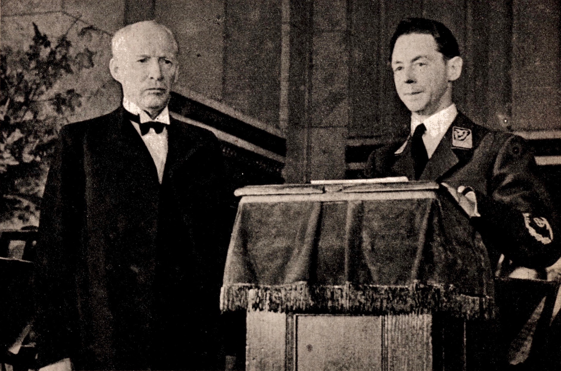 Photo from "Liv i kamp for Norge" ("Marie og Gulbrand Lunde Et liv i kamp for Norge"), a memorial book about Norwegian couple Marie (1907–1942) and Gulbrand Lunde (politician, 1901–1942), published by "Rikspropagandaledelsen" (propaganda department of Nasjonal Samling, Norwegian fascist party 1933–1945) and "Blix forlag" in Oslo, Norway 1942.Cropped JPG from PDF (a low resolution digitized version) of the book downloaded from National Library of Norway's site NO-OsNB (999824600824702202)